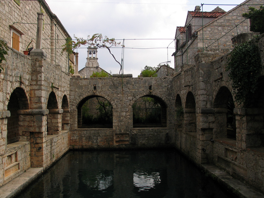 fishpond in the castle Tvrdalj in Stari Grad on island Hvar